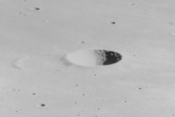 Oblique view of Turner, facing north